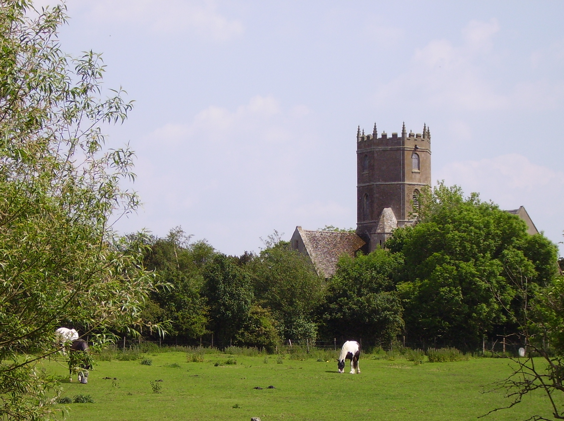 Church of England parish church of St Mary, Uffington, Oxfordshire (formerly Berkshire)